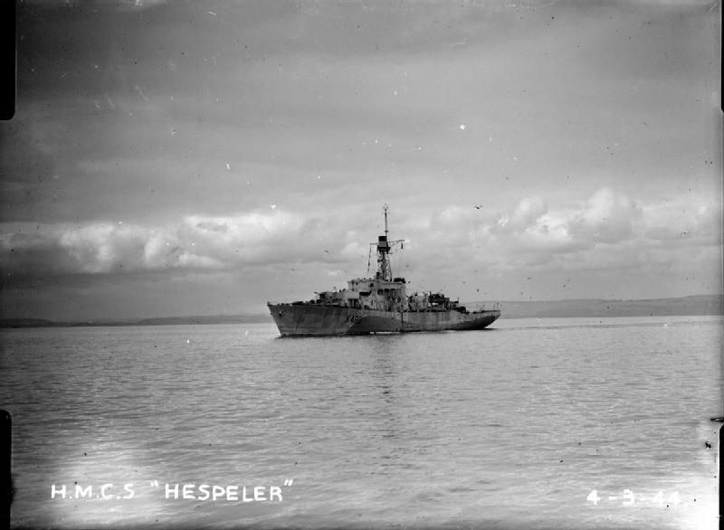 The Canadian Castle class corvette HMCS Hespeler (K489), sometime between 1943 and 1945.